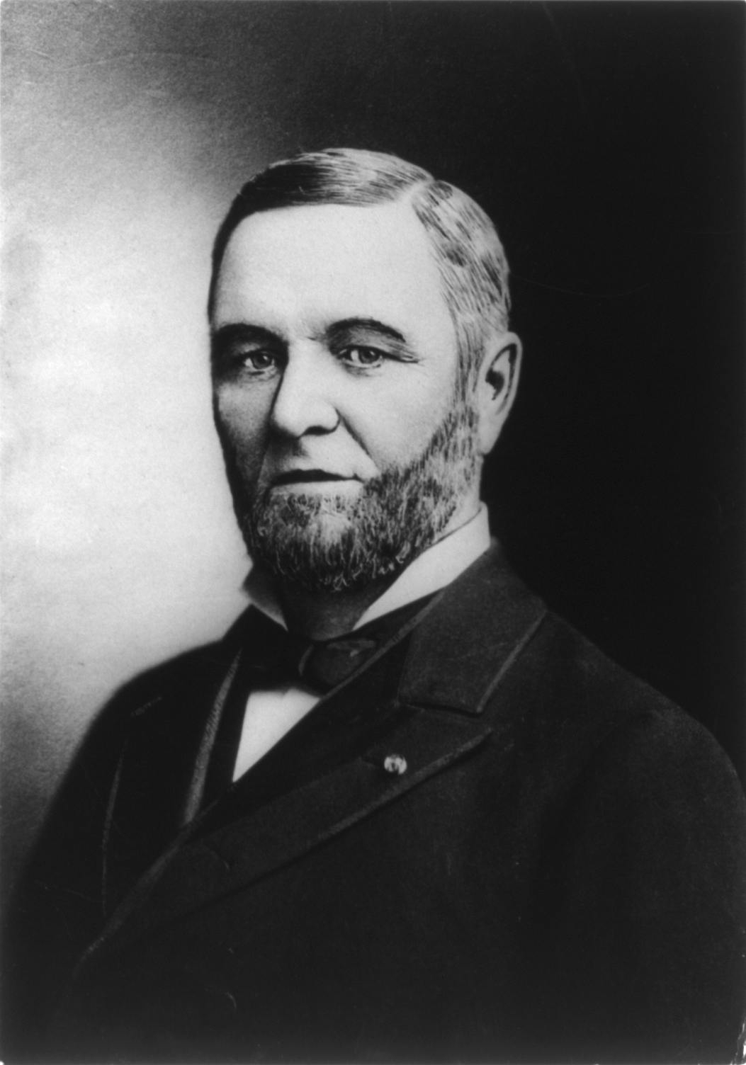 Edwin Hurd Conger, 1843-1907. Head and shoulders, facing left. Diplomat.